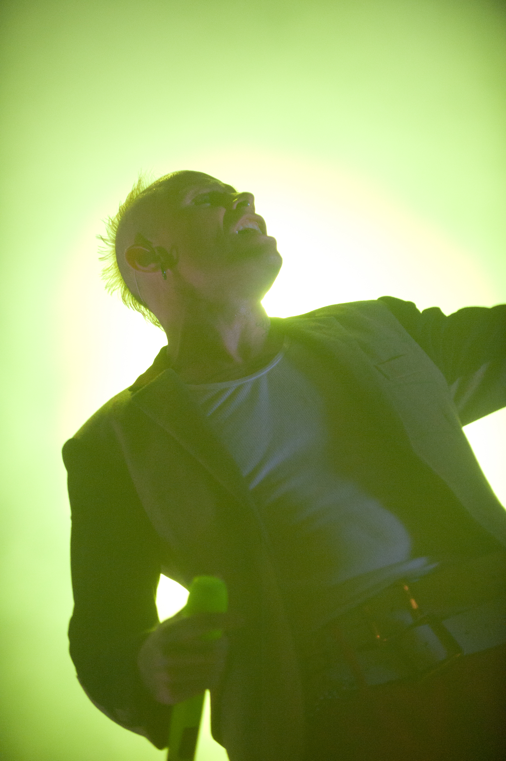 Keith Flint of The Prodigy, taken at Hultsfredsfestivalen 2011